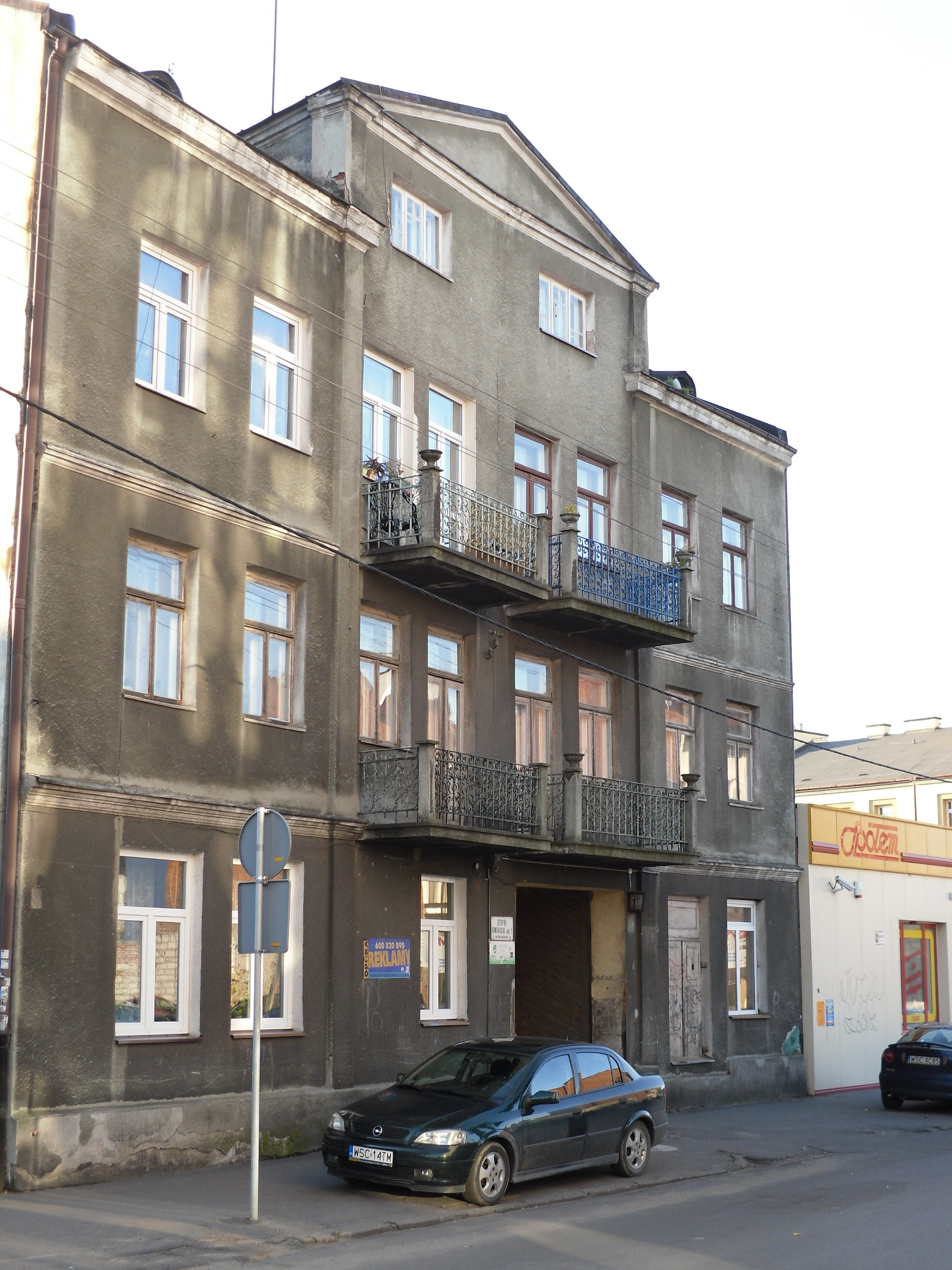 Sochaczew - the seat of Nazi-german Arbeitsamt during occupation of Poland (1939-45)